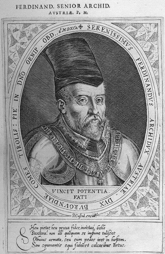 Ferdinand II. (Tirol)